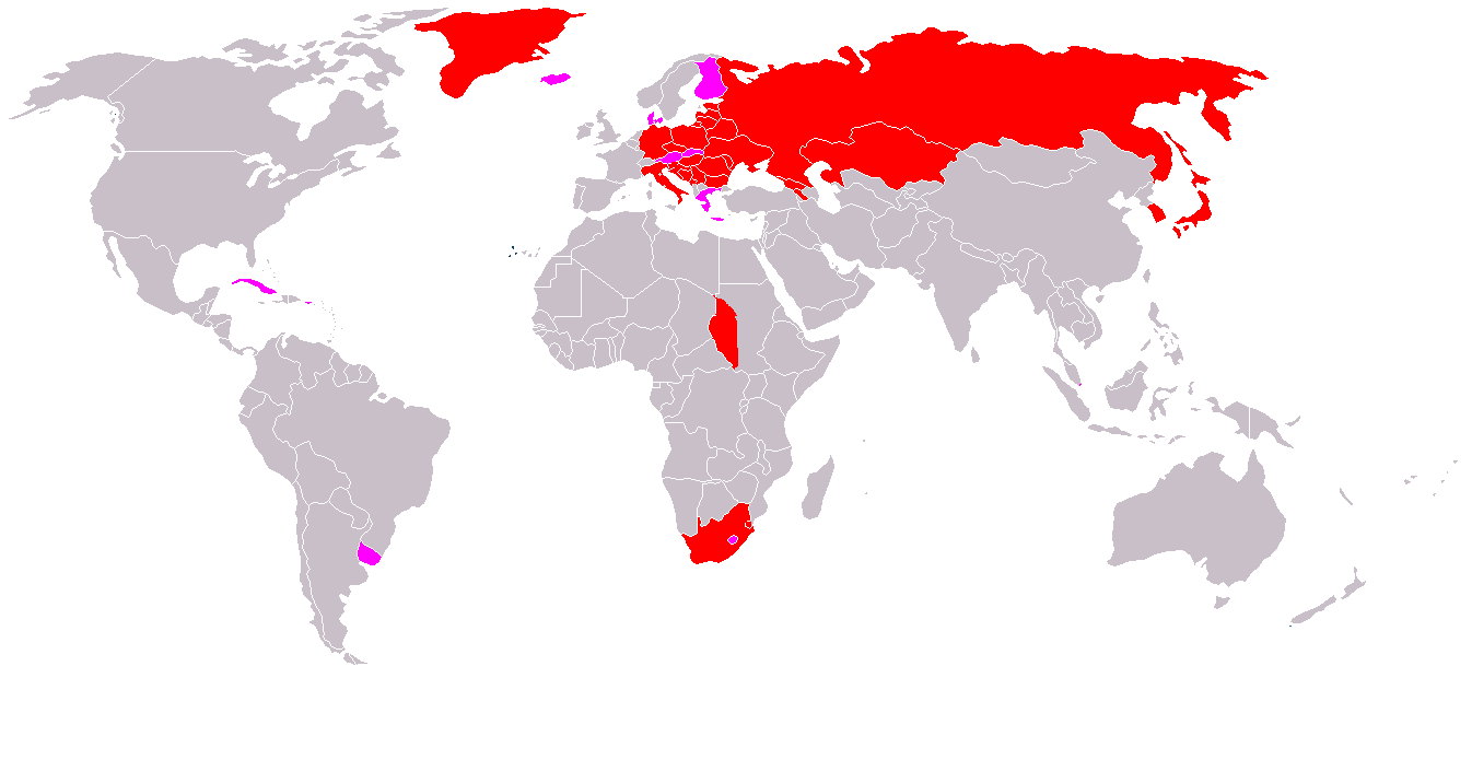 Population Decline. Red is decline, pink is approaching.